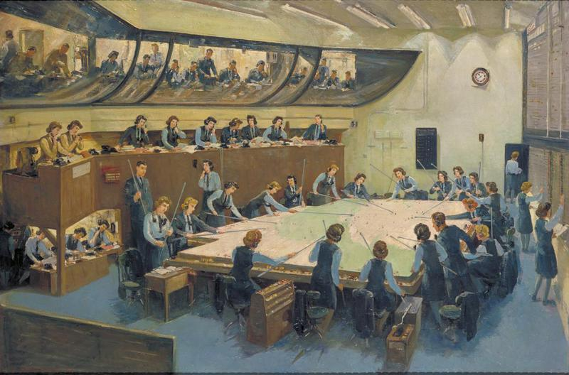 Interior of a large operations room with WAAF's positioning aircraft symbols on a large map table & chalking up aircraft numbers, overlooked by a row of WAAFs on phones and a large glass fronted viewing gallery.